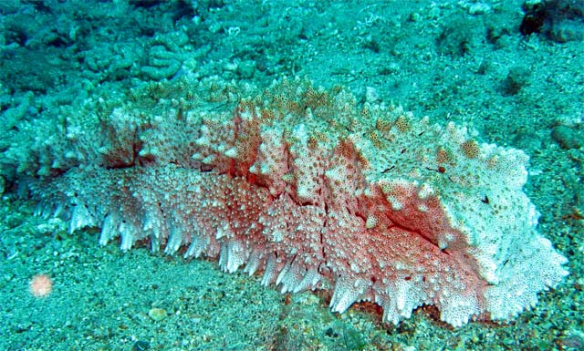 Giant Beche-de-mer or Amberfish (Thelenota anax), Bali, Indonesia